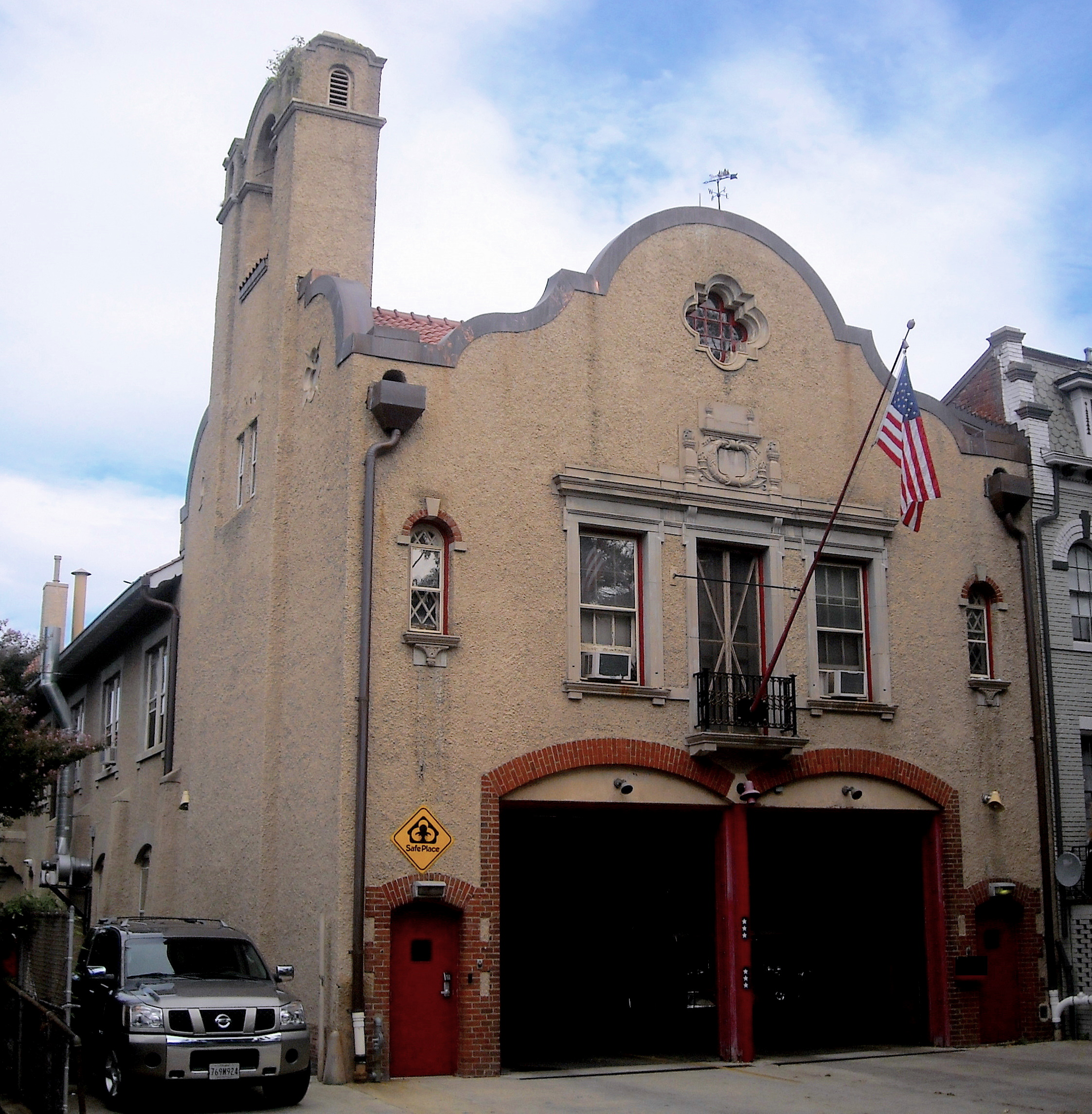 Engine Company No. 21 (also known as Truck Company 9) located at 1763 Lanier Place, NW in the Adams Morgan neighborhood of Washington, D.C. The Spanish Revival fire station was designed by noted architect Appleton P. Clark in 1908. The building was added to the National Register of Historic Places on June 27, 2007.